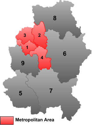 Map of Jilin city in Jilin province